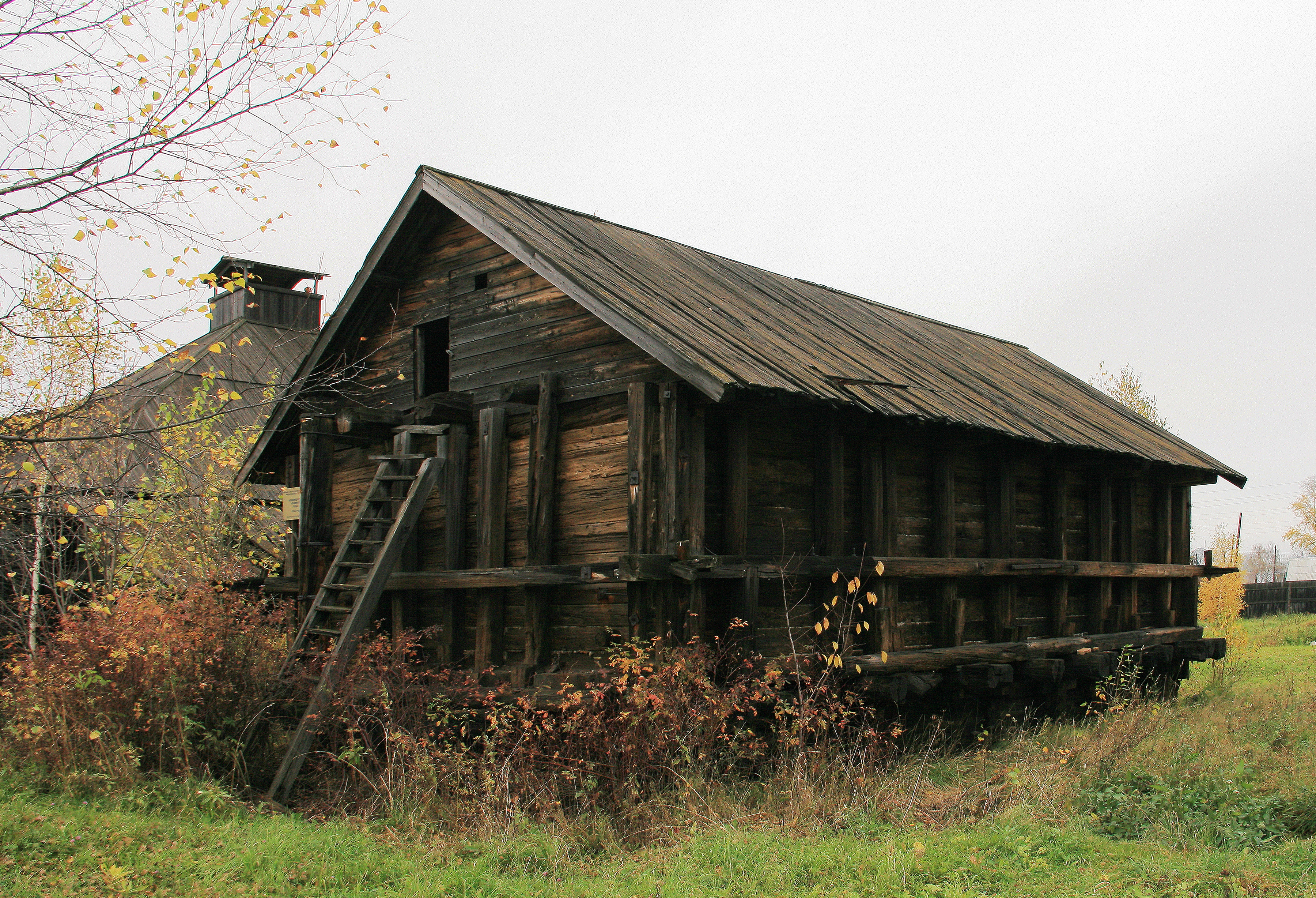 Ivans' Salt Bin Ust-Borovaya Saltworks, Solikamsk, Perm Krai